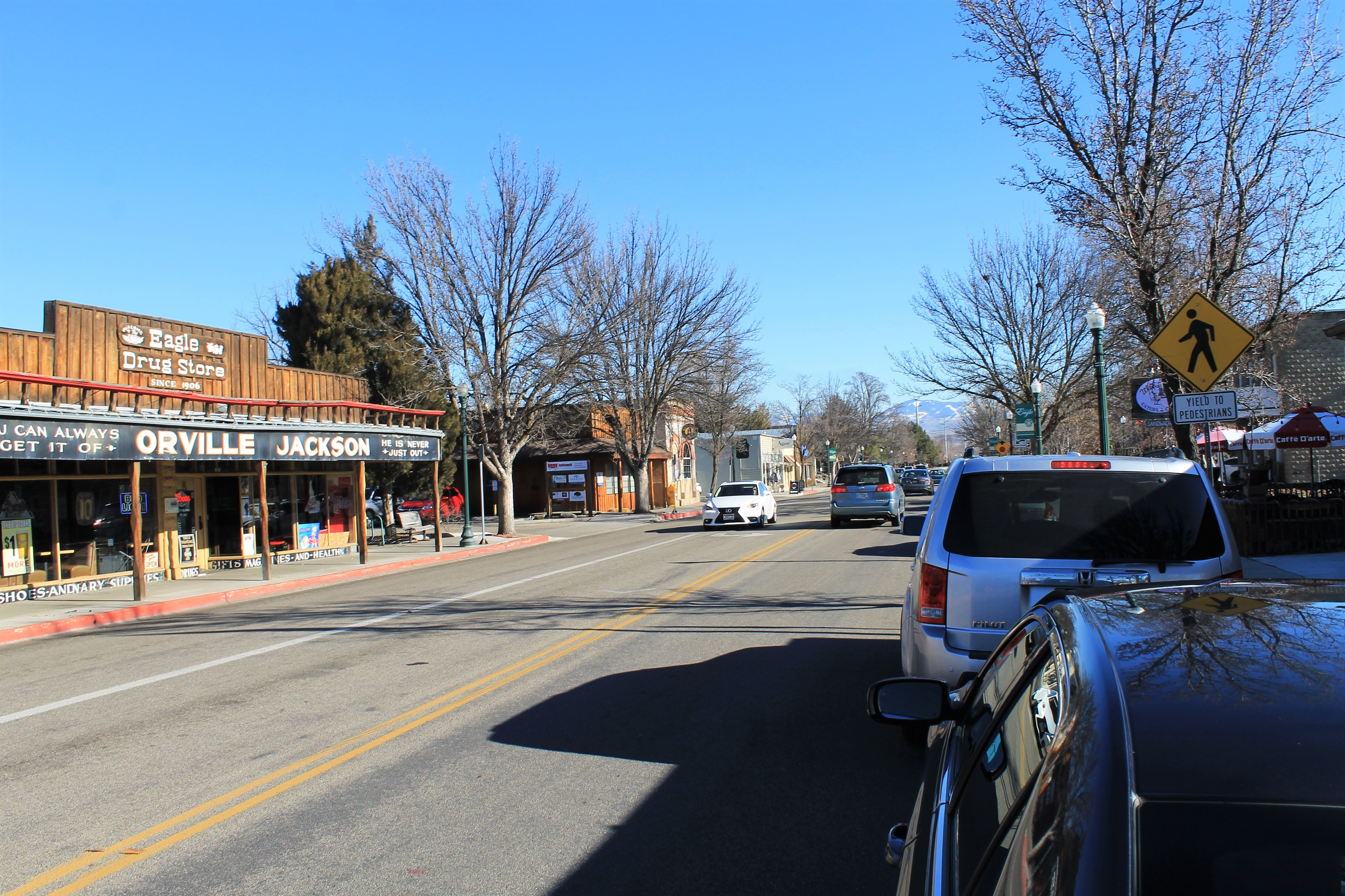 This is a photo of Eagle, Idaho, part of the Boise Metropolitan Area.